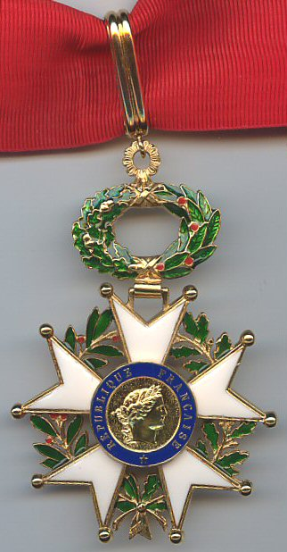 Commander of the Order of the Legion of Honour (obverse) France